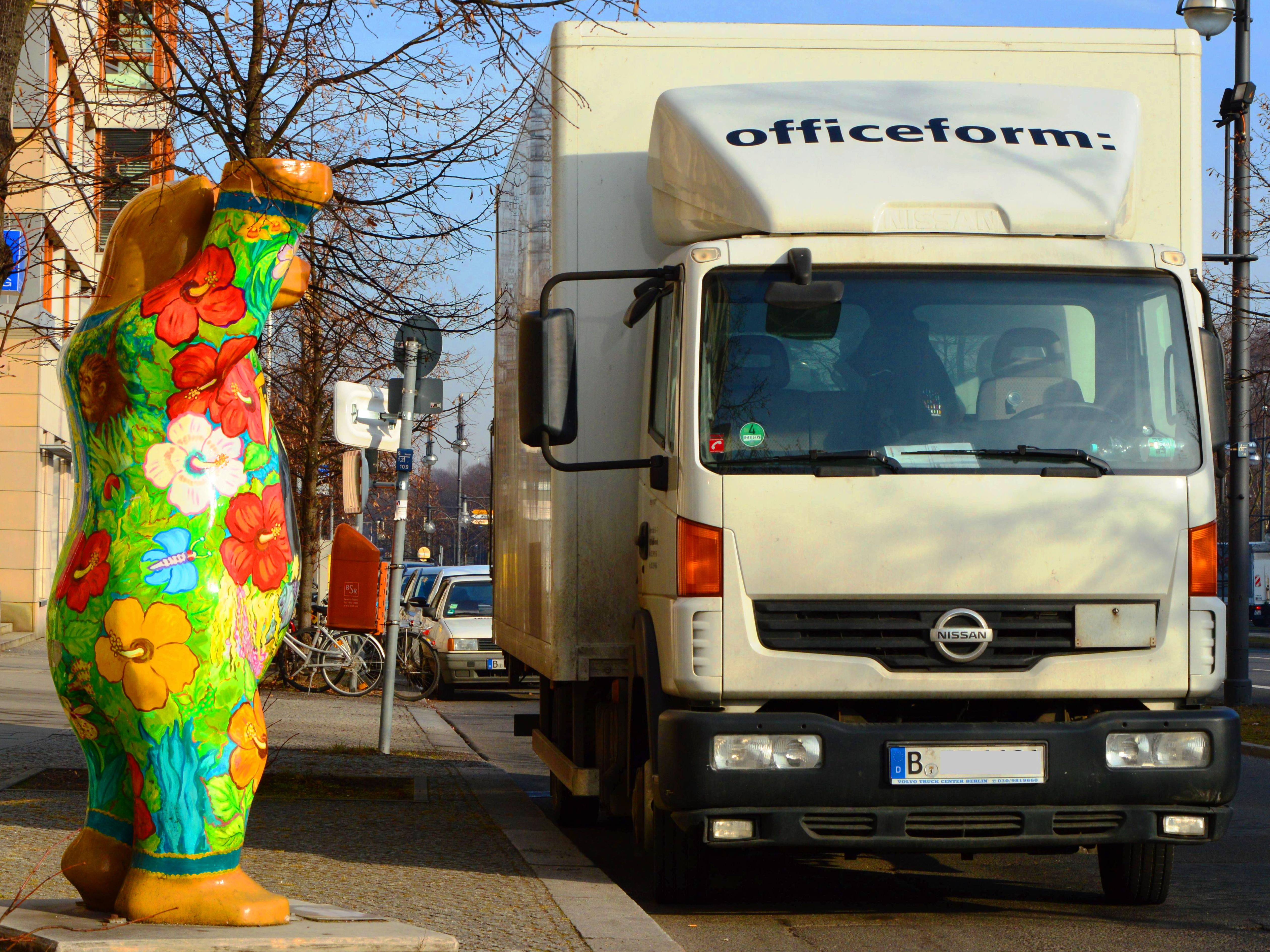 Nissan truck Atleon with buddy bear. Photo taken 2013 in Berlin-Tiergarten, Germany, Klingelhoeferstrasse near Malaysian embassy in Germany.